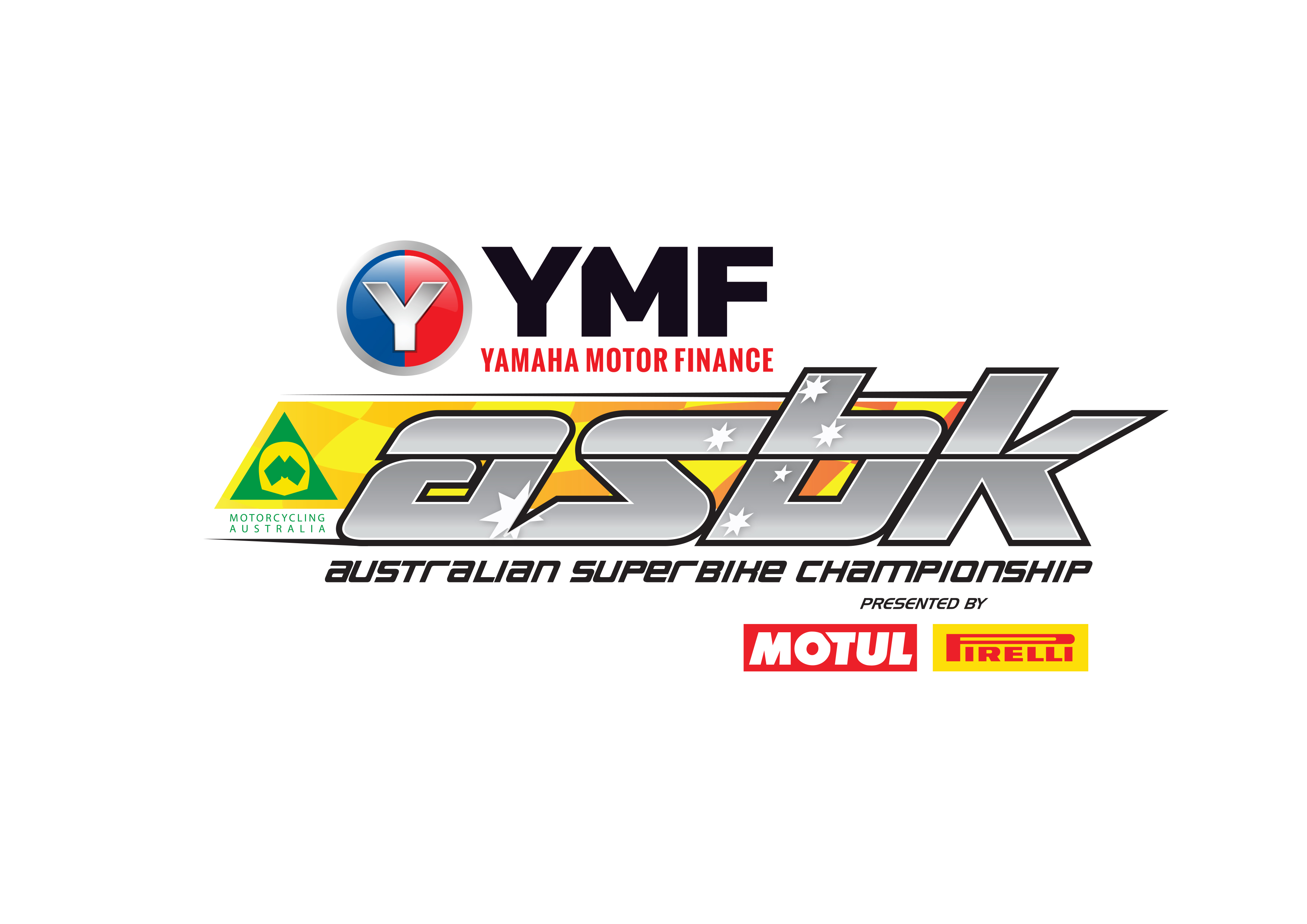 ASBK Current Logo